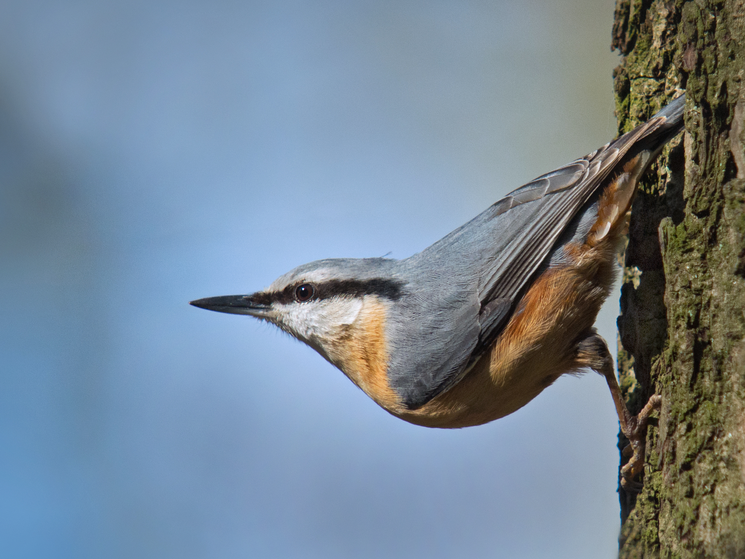 Digiscoping with Swarovski ATM 80 HD 30 X, Nikon1 V1 + 11-27,5 mm lens (Adapter DCB)